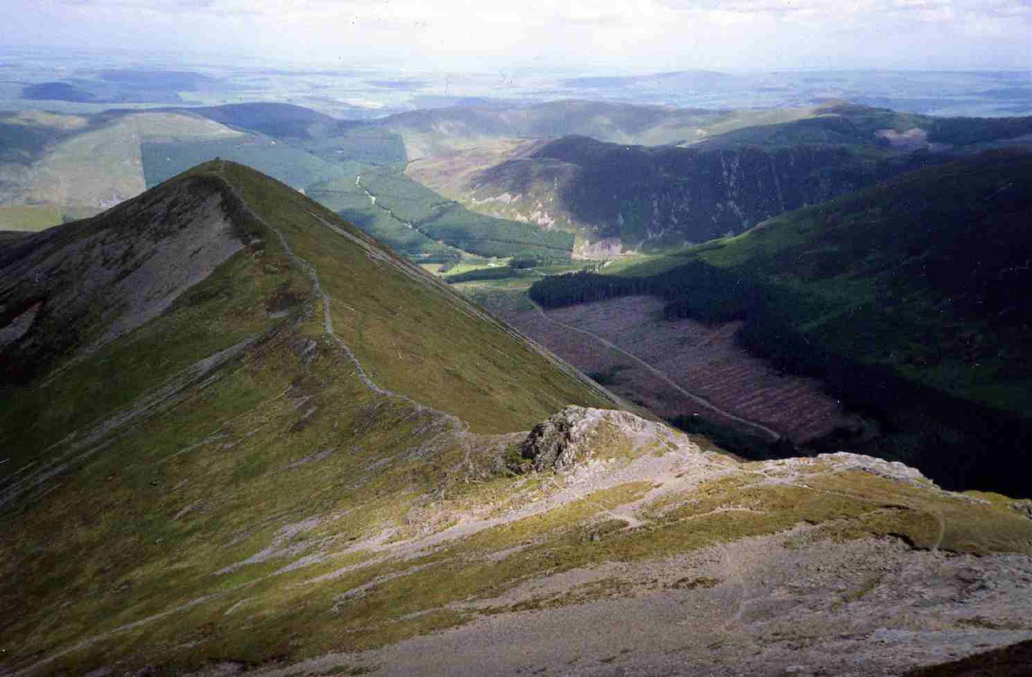 Looking down the north west ridge to Ladyside Pike, the Whinlatter pass road is in the valley. Personal photograph taken by Mick Knapton in May 1989